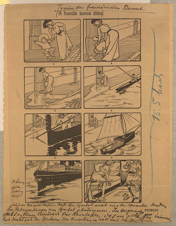 A one-page comic strip from a page of Sigmund Freud's The Interpretation of Dreams (1914); by Nándor Honti, Cartoon from Hungarian humor magazine Fidibusz found by Sándor Ferenczi in 1911